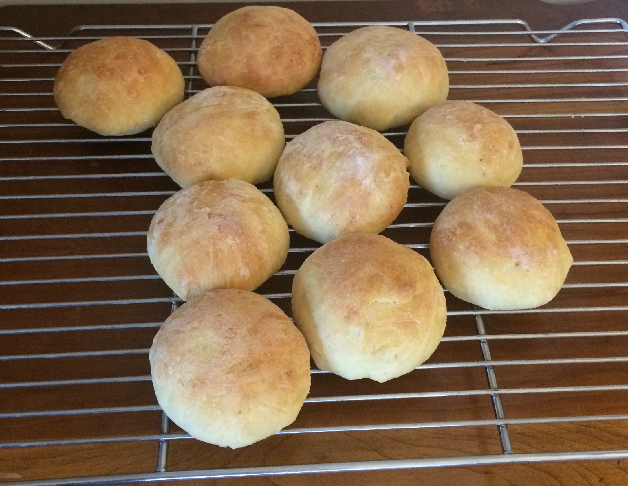 Nutribun prepared using a 1979 USAID internal document. Contained using all-purpose flour unbleached flour, water, sugar, baker's yeast, vegetable oil, salt, and powered non-fat milk. 350 calories per bun.